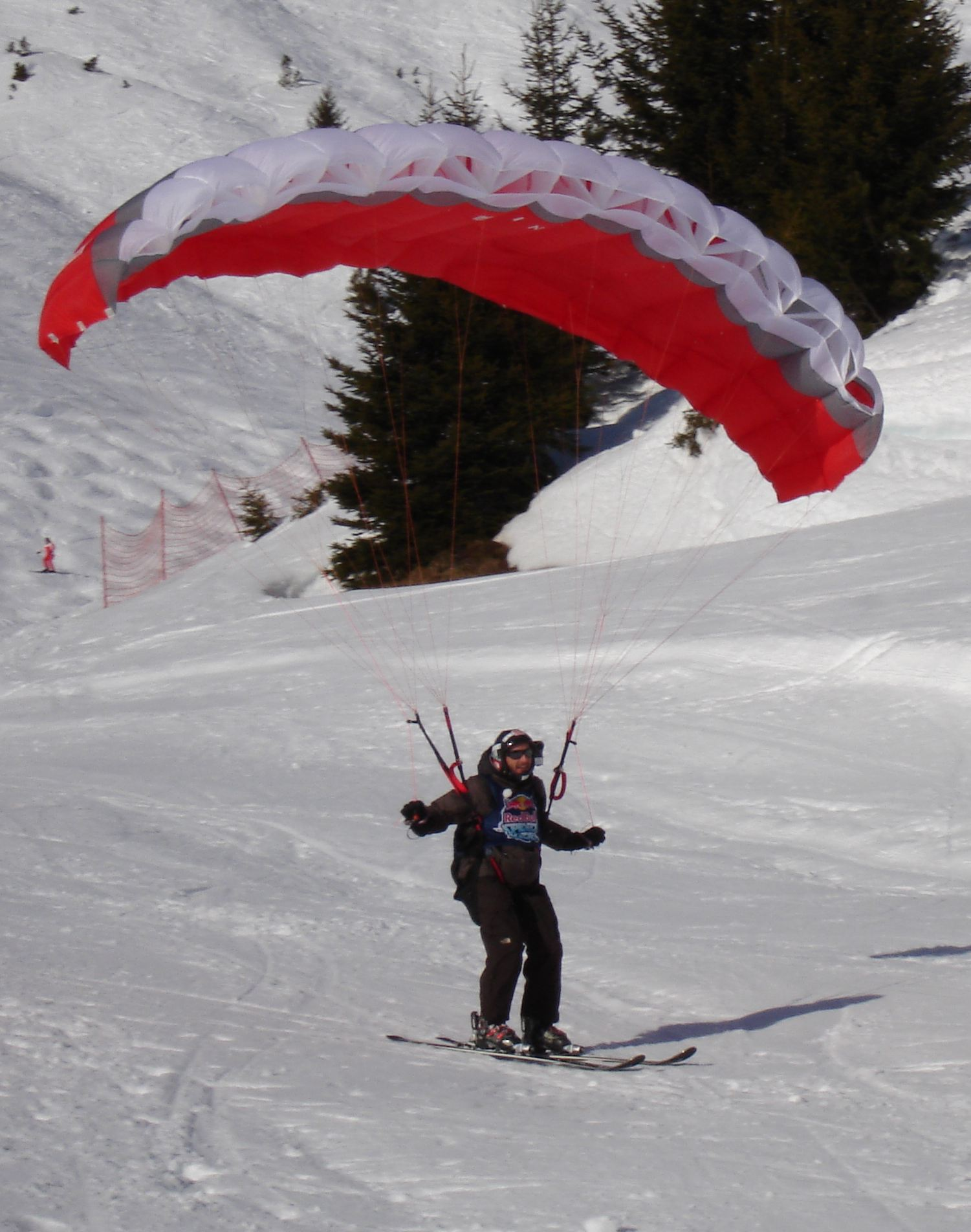 Speedflying / Speedriding French Champion and Co-founder Francois Bon with a typical freeriding-glider